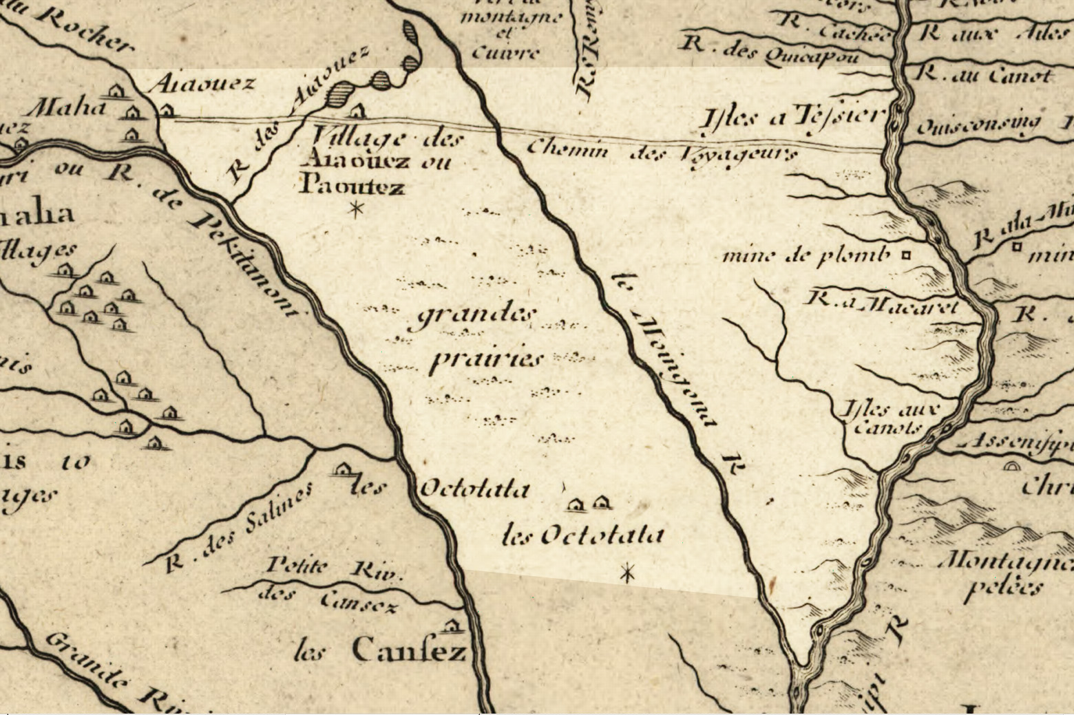 Iowa 1718, approximate modern state area highlighted, from Carte de la Louisiane et du cours du Mississipi by Guillaume de L'Isle. generally accepted translations: "Aiaouez"= Ioway; 'Octotata"=Otoe; "Moingona"= Des Moines River; "Macaret"= Maquoketa River; "Chemin des Voyageurs"= Main Voyageur’s Trail. "Paoutez" is probably a varaint of "Báxoje" (Ioway) which has an alternative pronounciation of [ˌpaˈxodʒɛ]. Other tribes include the "Cansez"= Kansa, and "Maha"= Omaha.